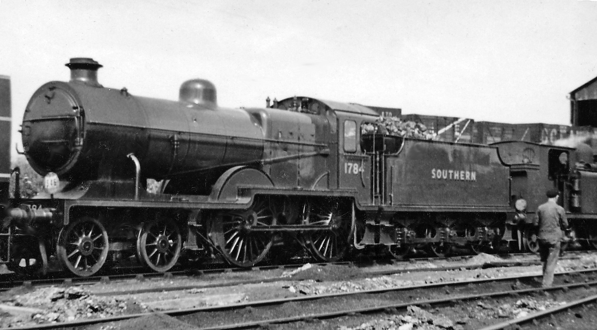 Freshly repaired SR 4-4-0 at Ashford Locomotive Depot SR Maunsell L1 class 4-4-0 No. 1784 (built 4/26, withdrawn 2/60) has clearly just been through Ashford Works, which were across the Canterbury line from the Locomotive Running Depot. In 1947, Ashford Depot had an allocation of 60:- 4 4-6-0, 14 4-4-0, 8 2-6-0, 5 0-6-4T, 11 0-6-0, 3 0-6-0T, 14 0-4-4T and 1 0-4-2T.[This pre-nationalisation shot in 1946 was one my earliest].